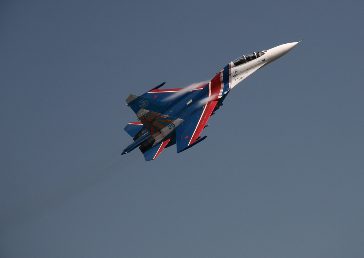 "Russian knights" group member, Ulyanovsk-2008 aviashow